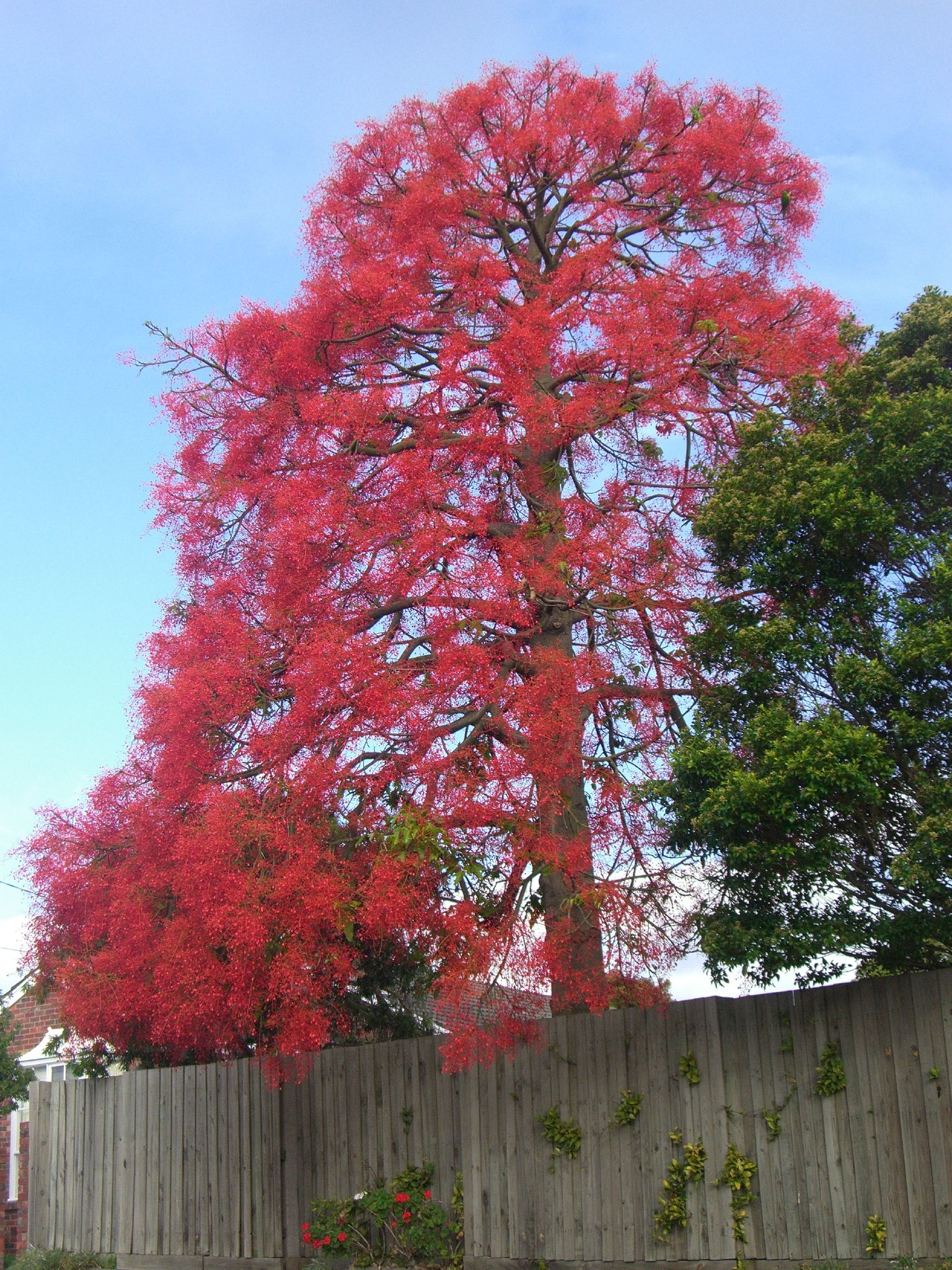 Brachychiton Acerifolius or Illawarra Flame Tree, Glenbrook Avenue, Clayton, Australia